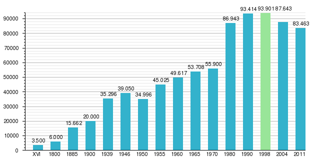 Population